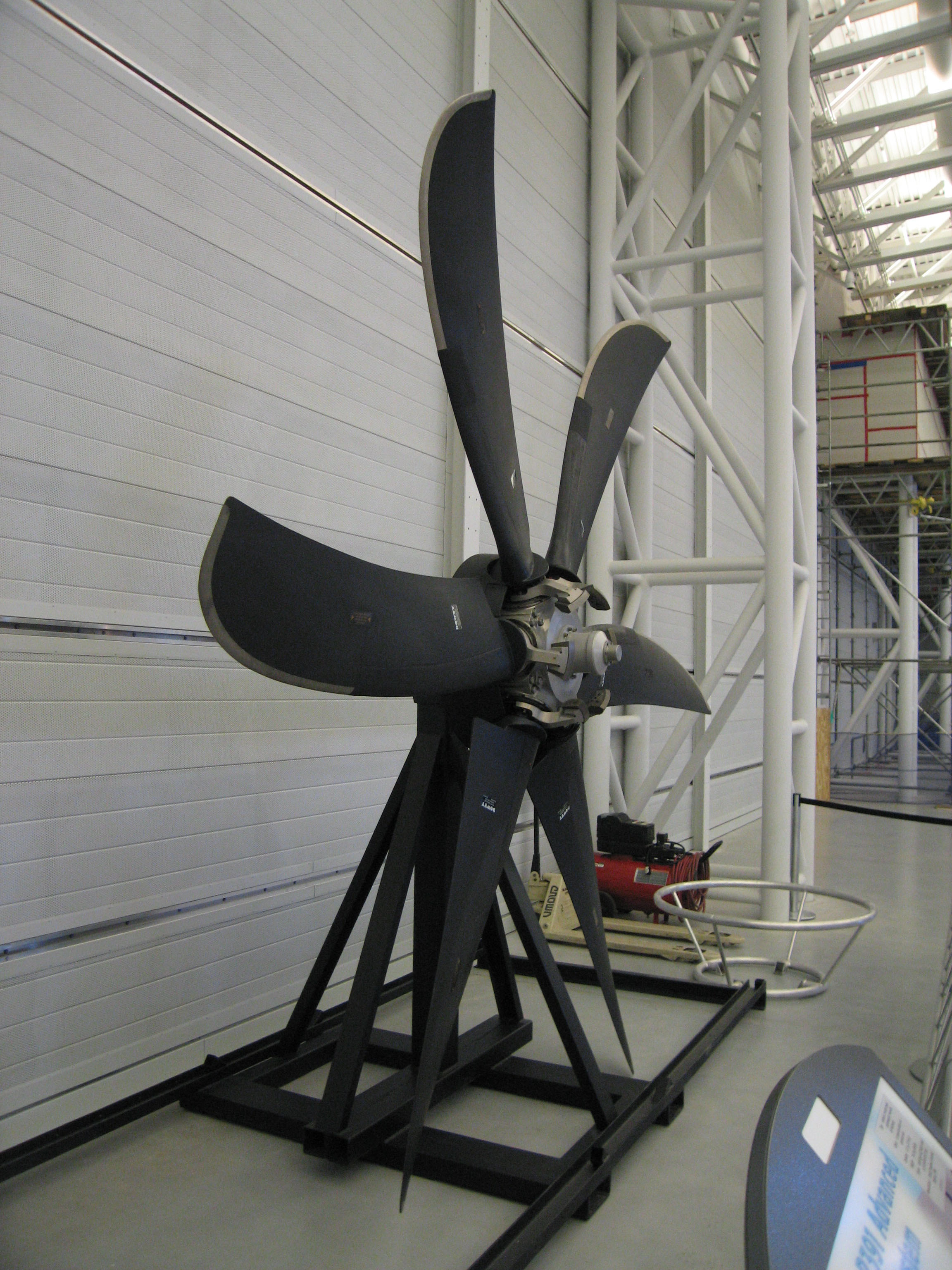 Dowty R391 Advanced Propeller System, serial number 0001, on display at Steven F. Udvar-Hazy Center in Virginia